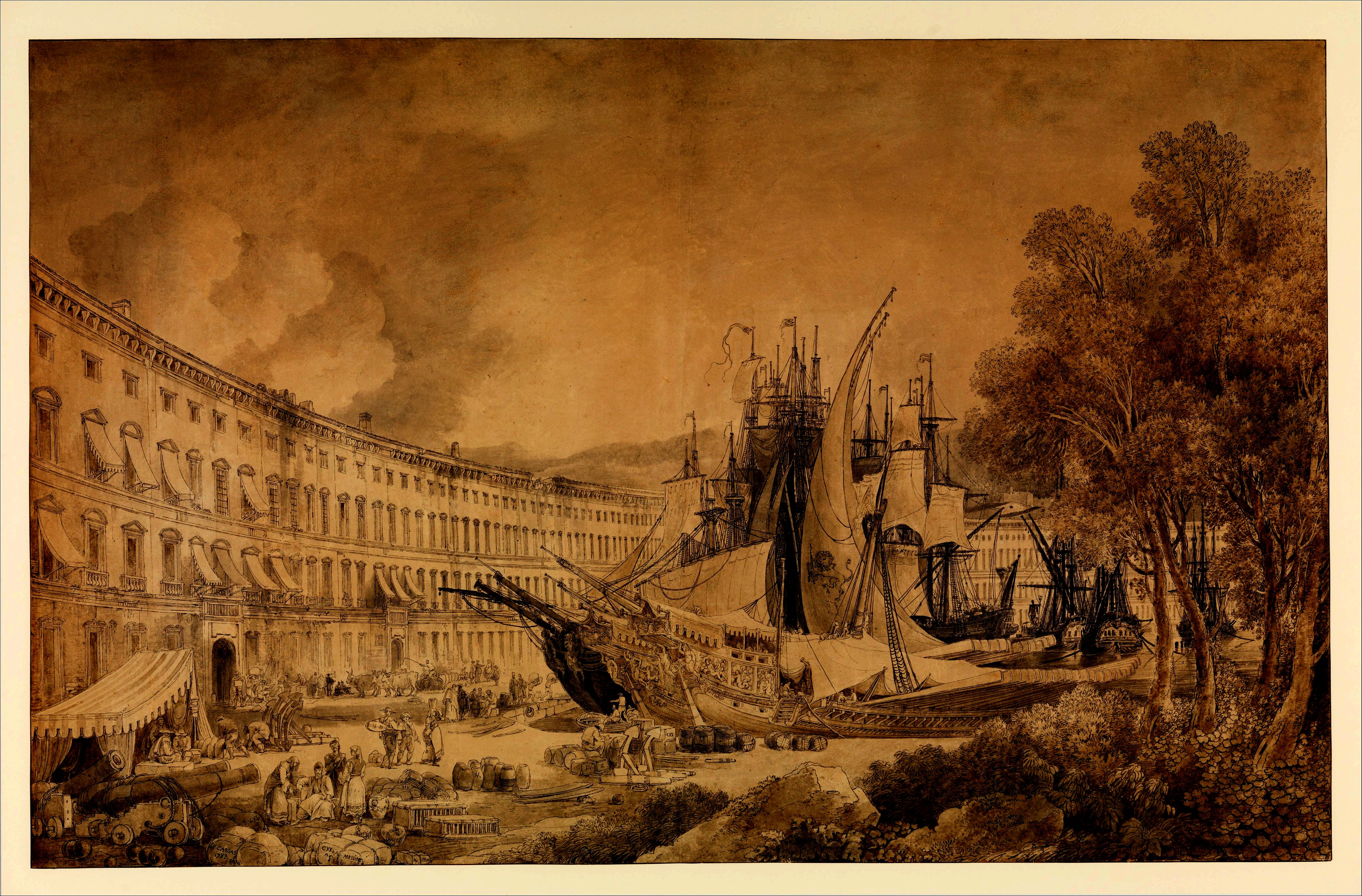 Louis François Cassas's View of Messina Harbor with the curving architectural structure in the background with the parade of windows and balconies, a rendering of the Palazzata, which was designed by Simone Gullì in 1623 and subsequently destroyed in 1783